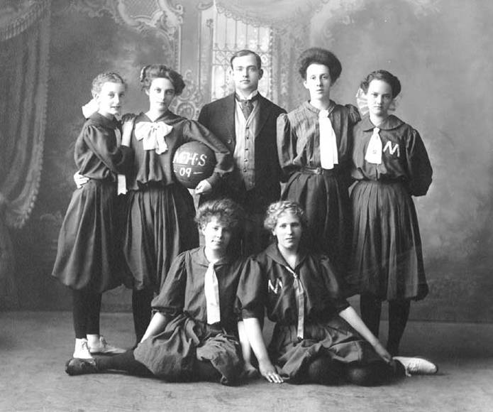 Girl's basketball team of Milton High School, Milton, North Dakota